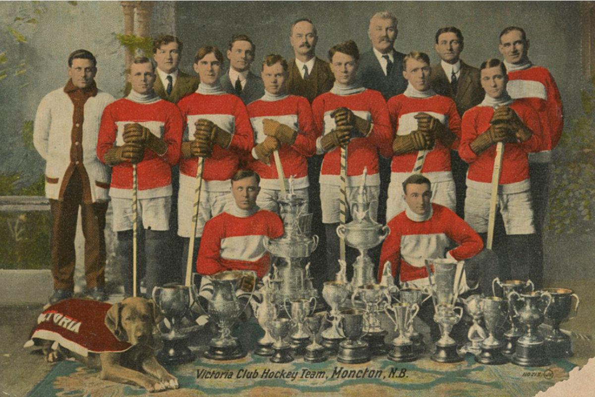 Canadian ice hockey team Moncton Victorias during the 1912–13 MaPHL season.